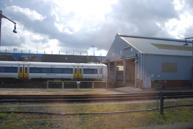 Engine shed, Gillingham sidings